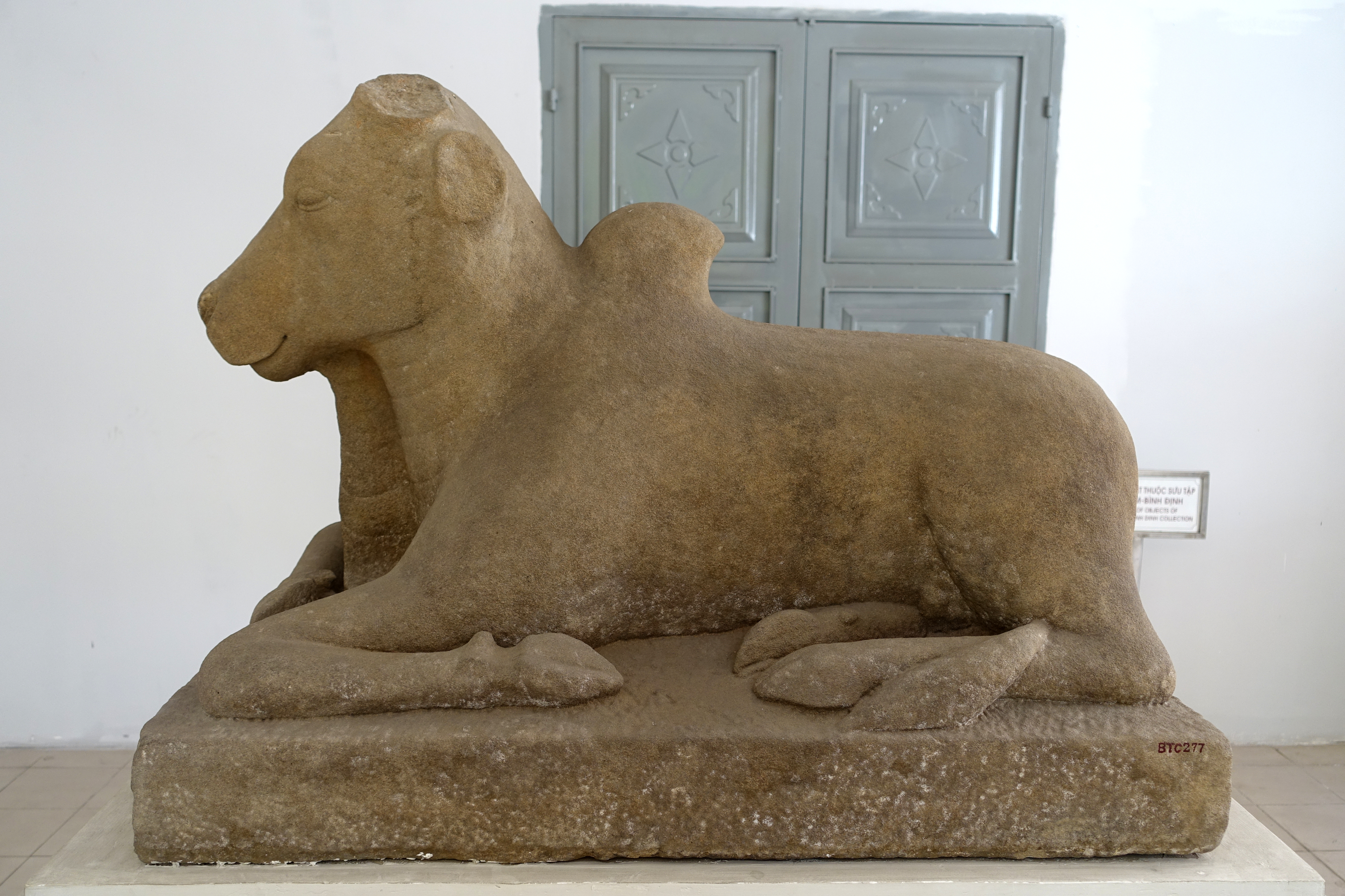 Cham sculpture at the Museum of Cham Sculpture, Da Nang, Vietnam. This artwork is in the public domain because the artist died more than 70 years ago.